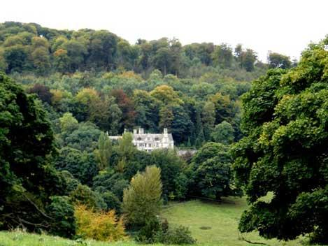 Enid Fletcher, Longlevens, Gloucester, who releases it into the Public Domain.